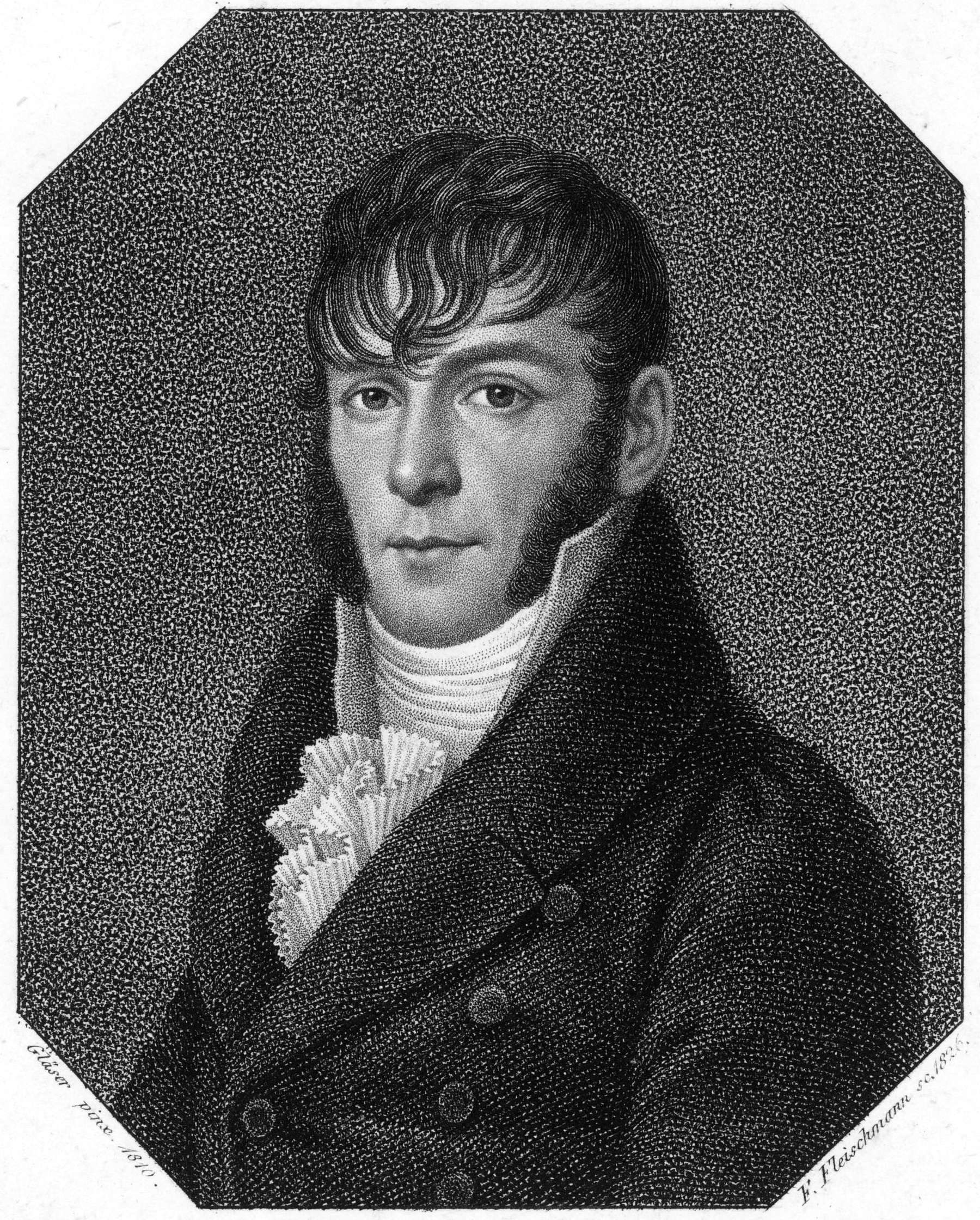 Depicted person: August Schumann